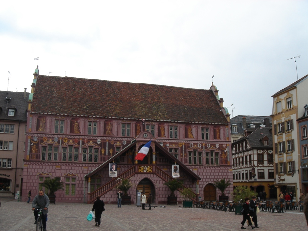 Town hall of Mulhouse (France).